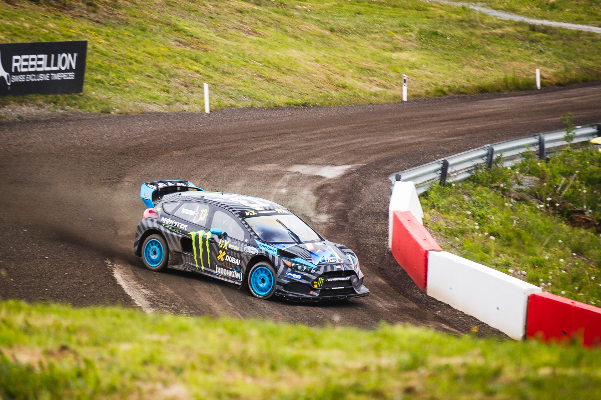 Andreas Bakkerud in his Ford Focus RS at Round 5 of the 2016 FIA World Rallycross Championship at Lånkebanan, Hell, Norway.